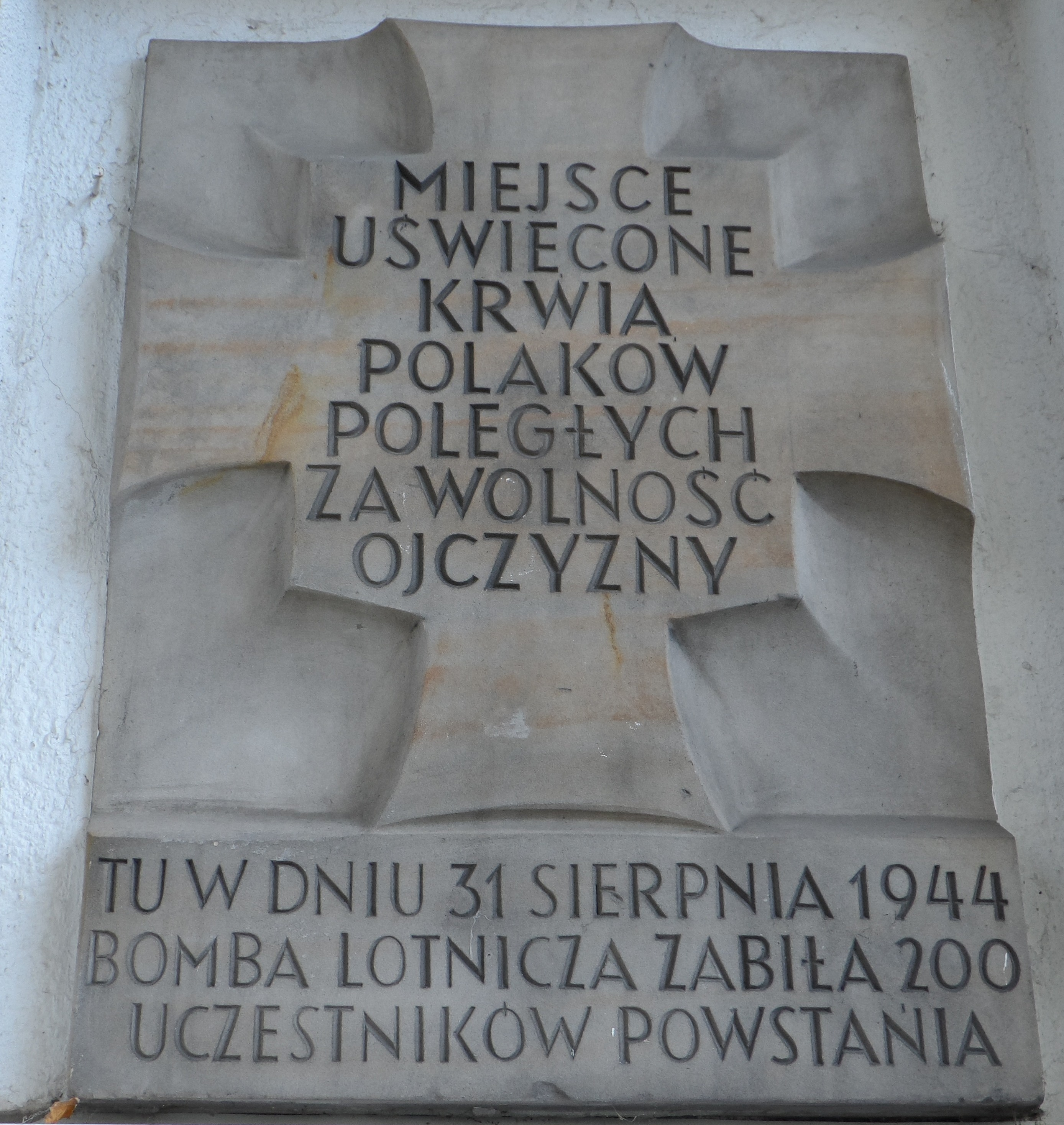 Plaque at tower block at 66, Solidarności Avenue in Warsaw (as seen from Długa Street) commemorating over 200 Warsaw Insurgents killed during German air raid on 31st August 1944.